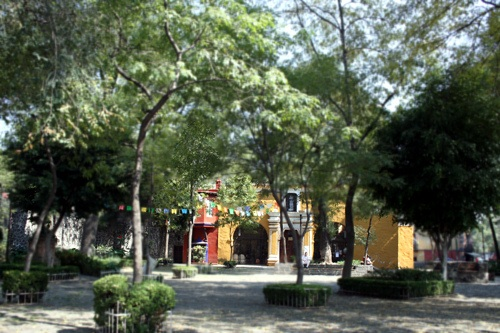 Park of St. Catherine in Coyoacán